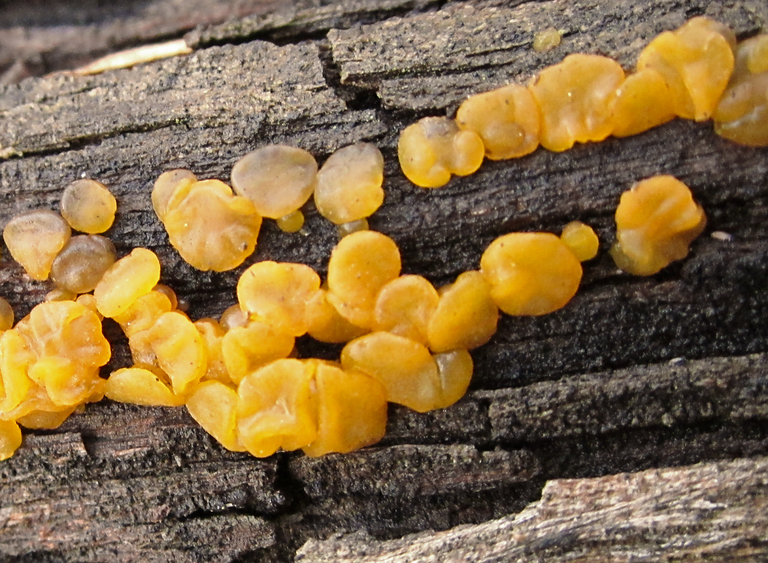 Dacrymyces capitatus Schwein. Image location: Bear Creek Trail, Briones Reservoir, Contra Costa Co., California, USA Growing on dead branches of Coyote brush (Bacharis pilularis). Each head was 2-3 mm across. Recognized by sight For more information about this, see the observation page at Mushroom Observer.